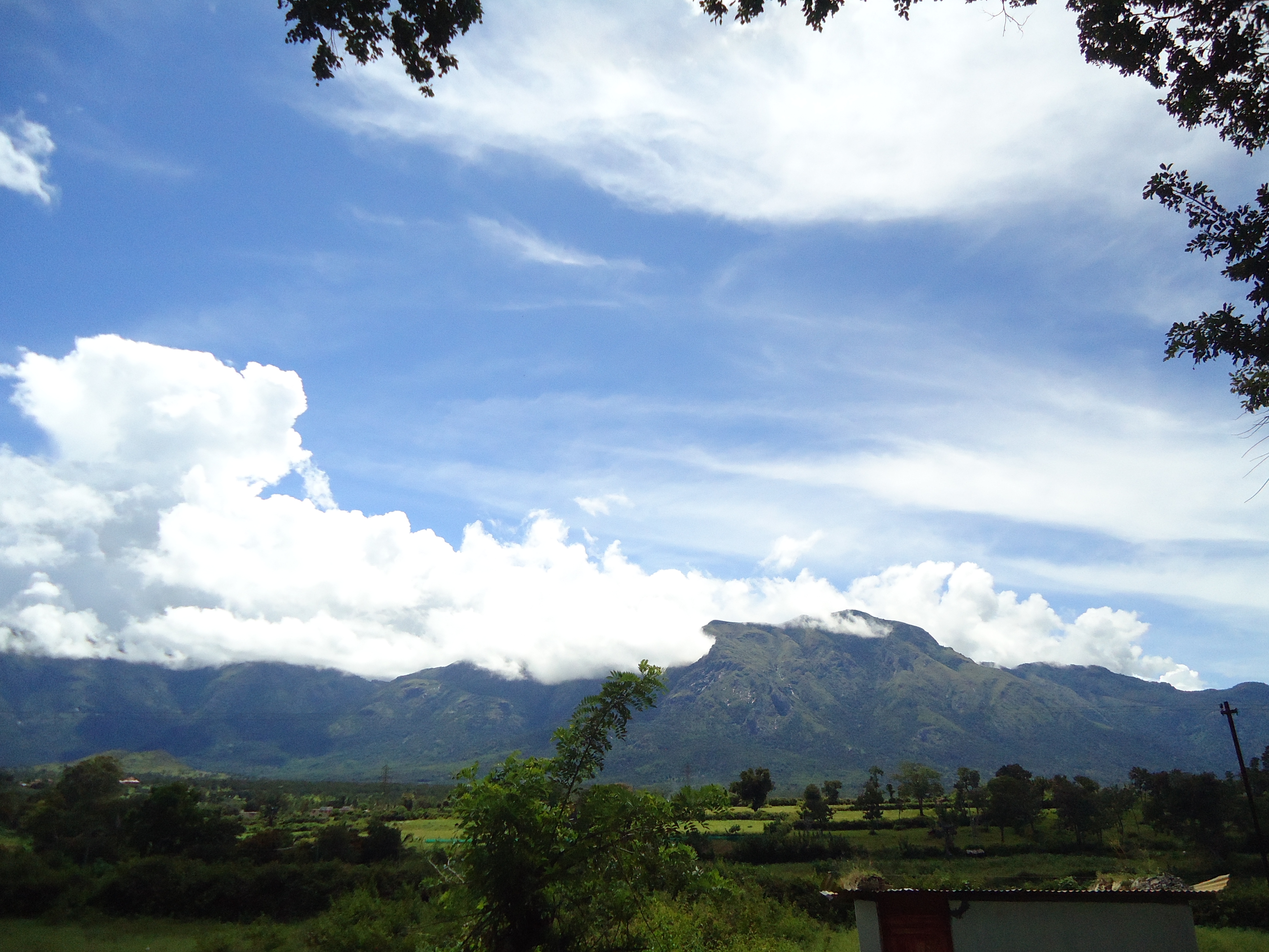 Amalgum of Scenic beauty of range of nilgiri (blue) hills, greeneries, white clouds and blue sky